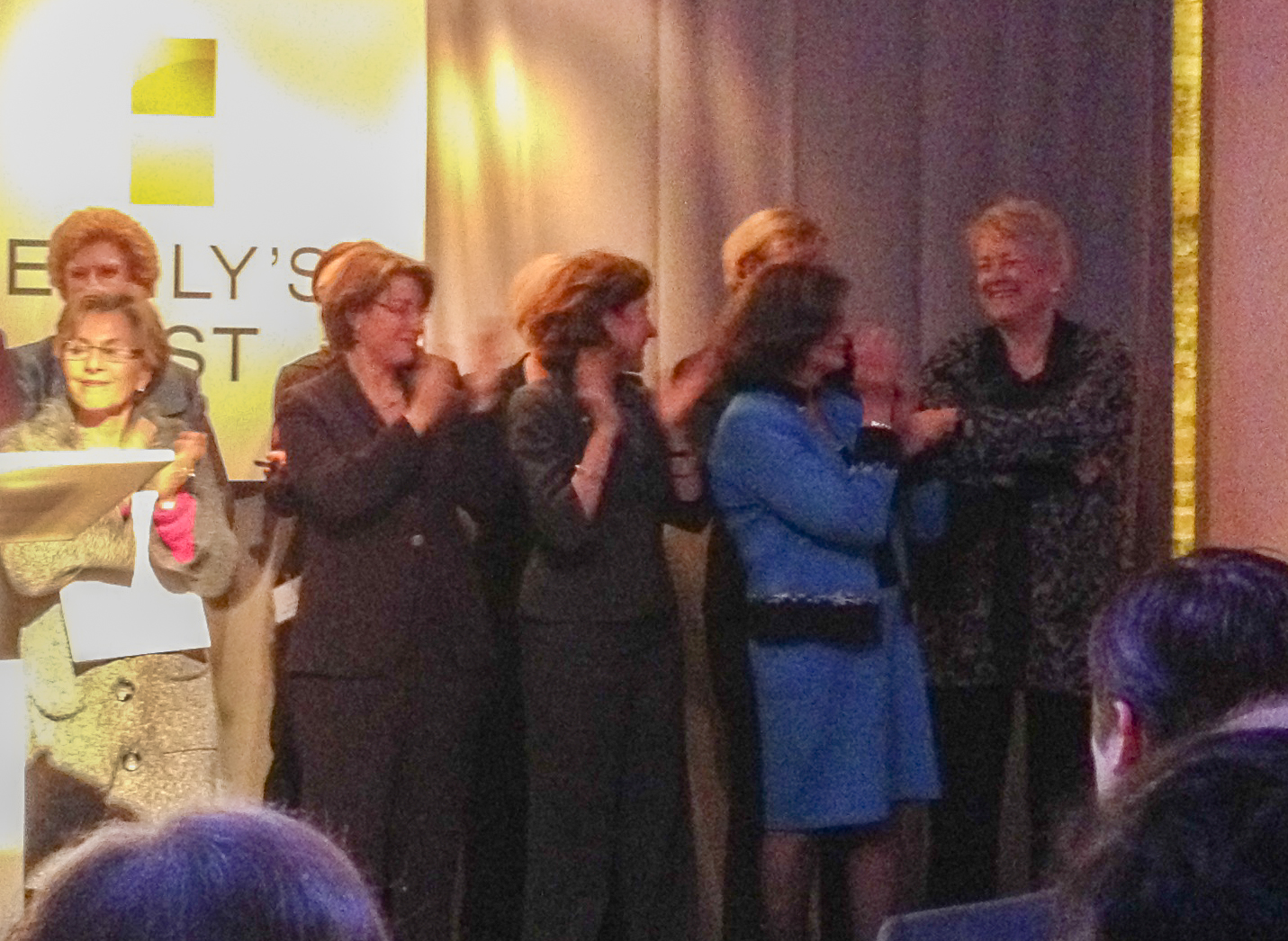 Ellen Malcolm (right) attending an EMILY's List event at Long View Gallery.